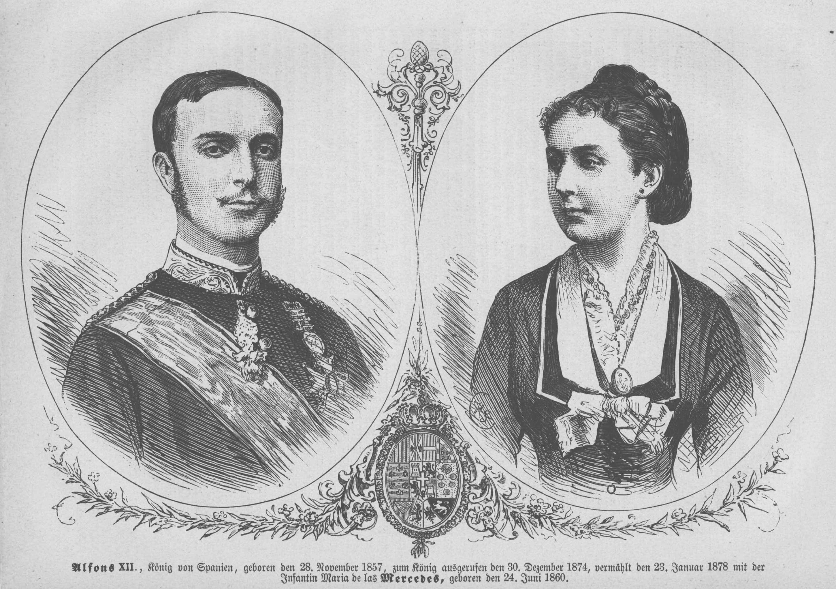 King AlfonsXII of Spain and the Infanta Maria de las Mercedes d’Orléans-Montpensier